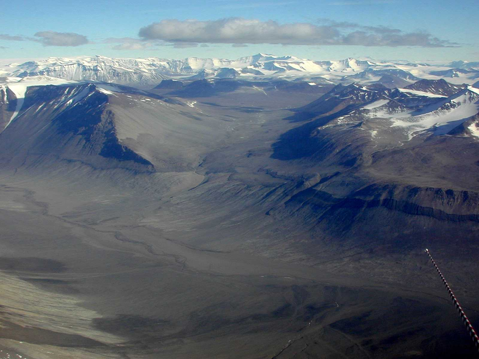 Bull Pass in the Dry Valleys of southern Victoria Land. The Dry Valleys extend over 1,500 square miles and are mostly devoid of snow and ice.